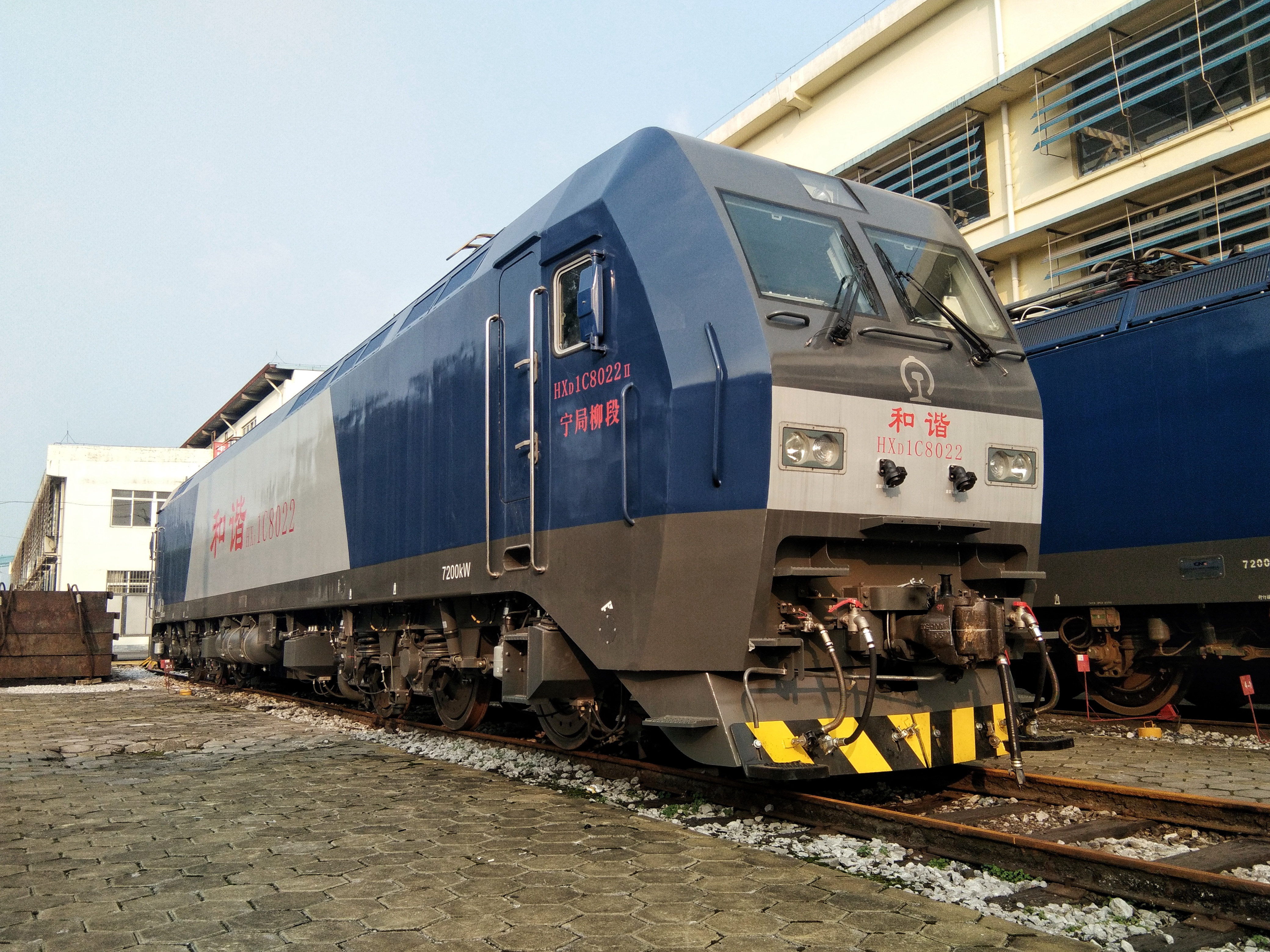 HXD1C-8022 in Liuzhou Locomotive Depot, December 2017.